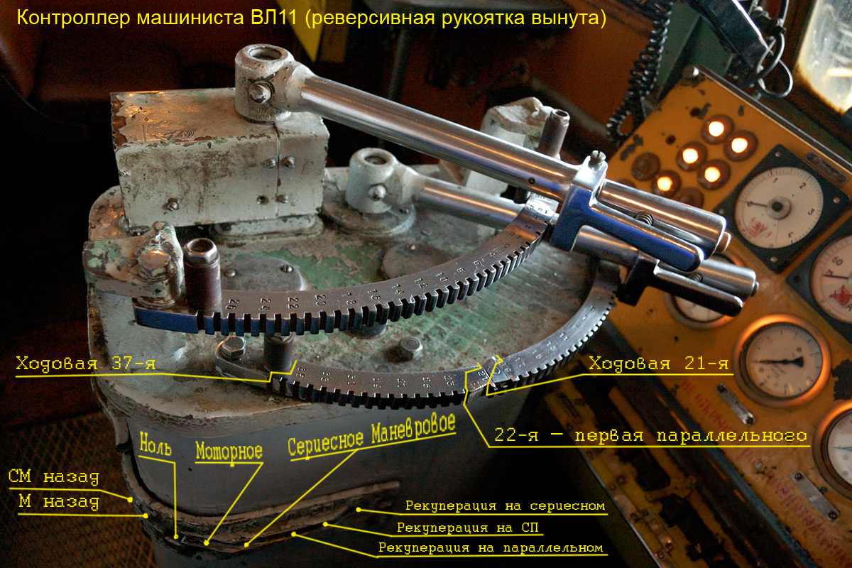 Control handles of VL11 locomotive winhout removable reverse handle Ноль — Neutral Моторное — Motor mode forward Сериесное Маневровое — Low-speed motor mode forward М назад — Motor mode backward СМ назад — Low-speed motor mode backward Рекуперация на сериесном — Low-speed regeneration Рекуперация на СП — Middle-speed regeneration Рекуперация на параллельном — High-speed regeneration